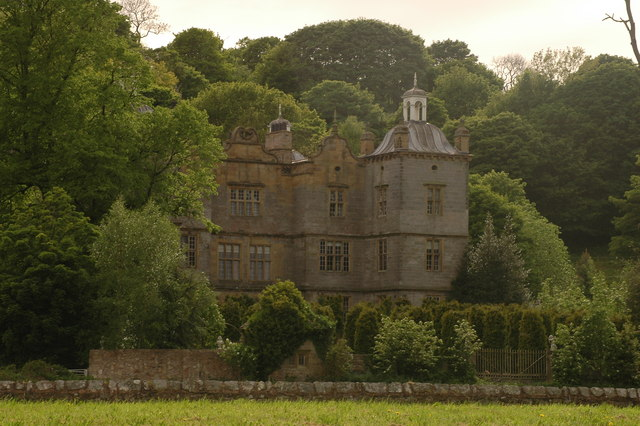 Plas Teg Hall.